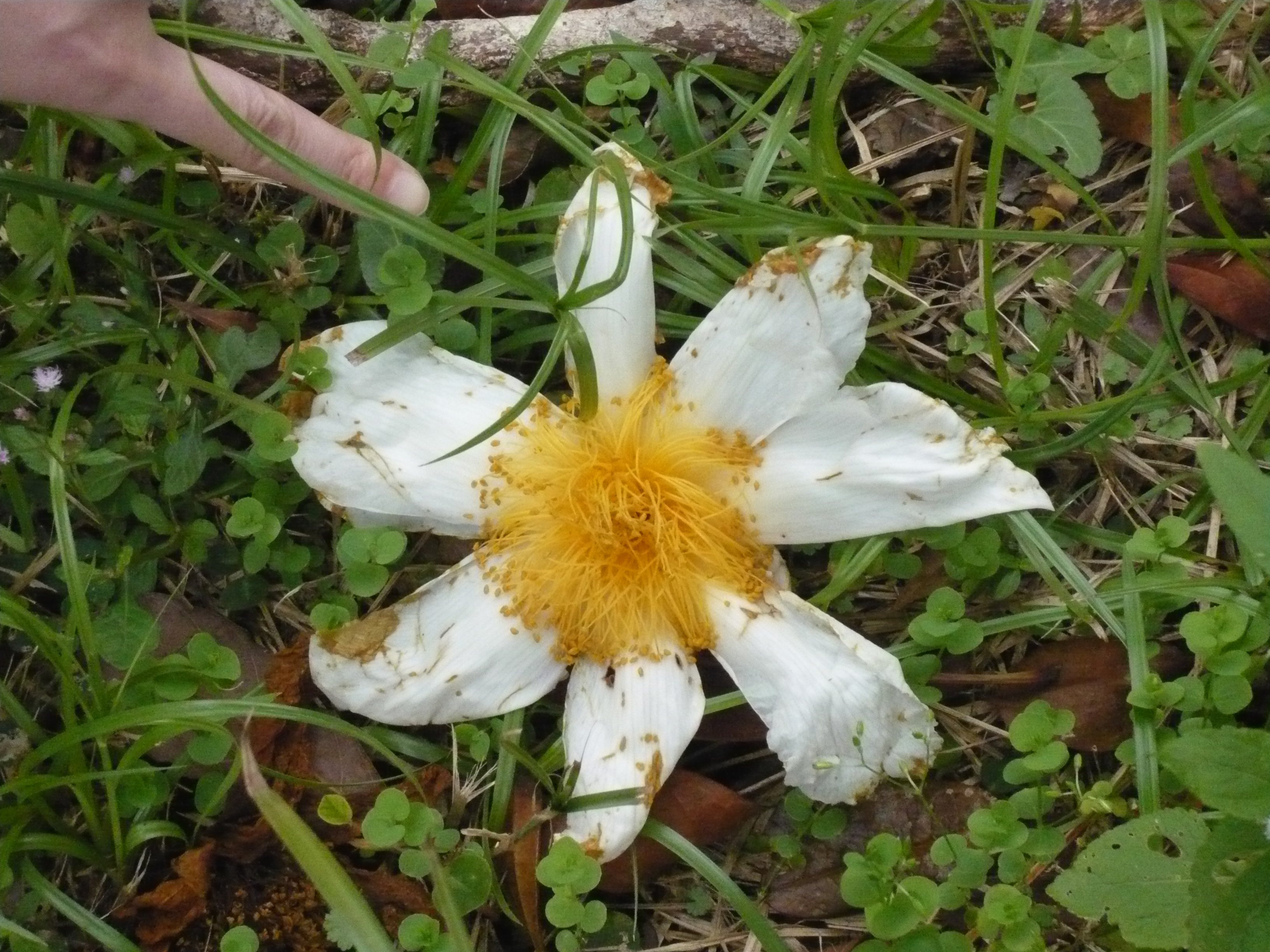 Camellia granthamiana (Camellia granthamiana) 中文（香港）: 葛量洪茶